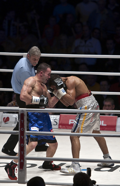 2011 boxing event in Stožice Arena